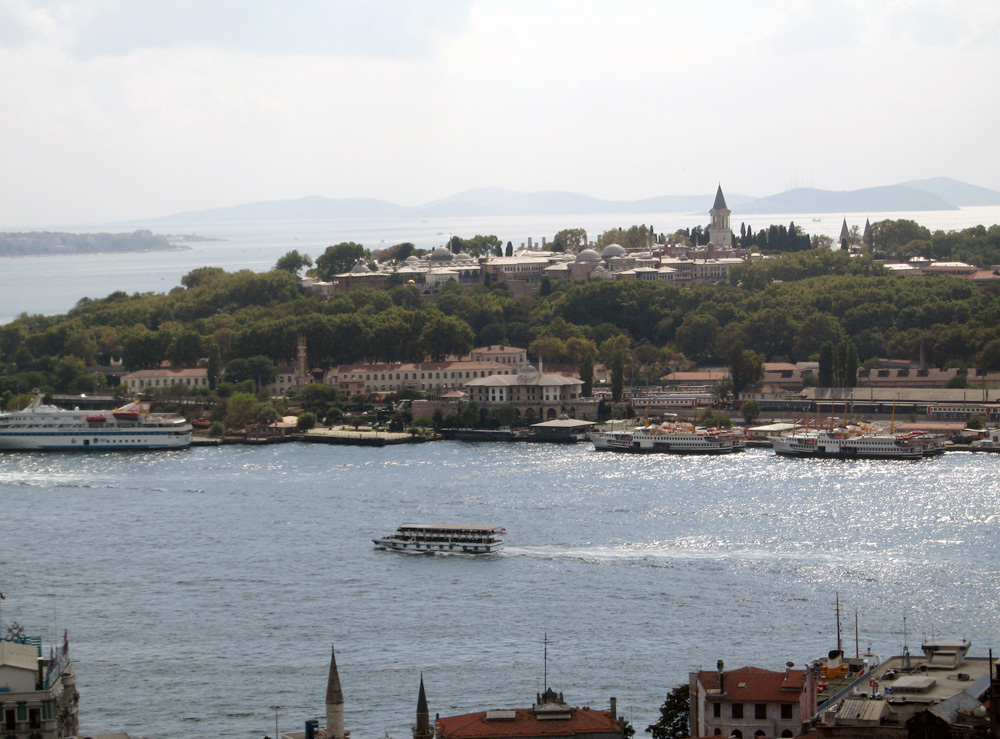 Topkapi Serail with Sepetçiler Palace in the foreground at the shore.